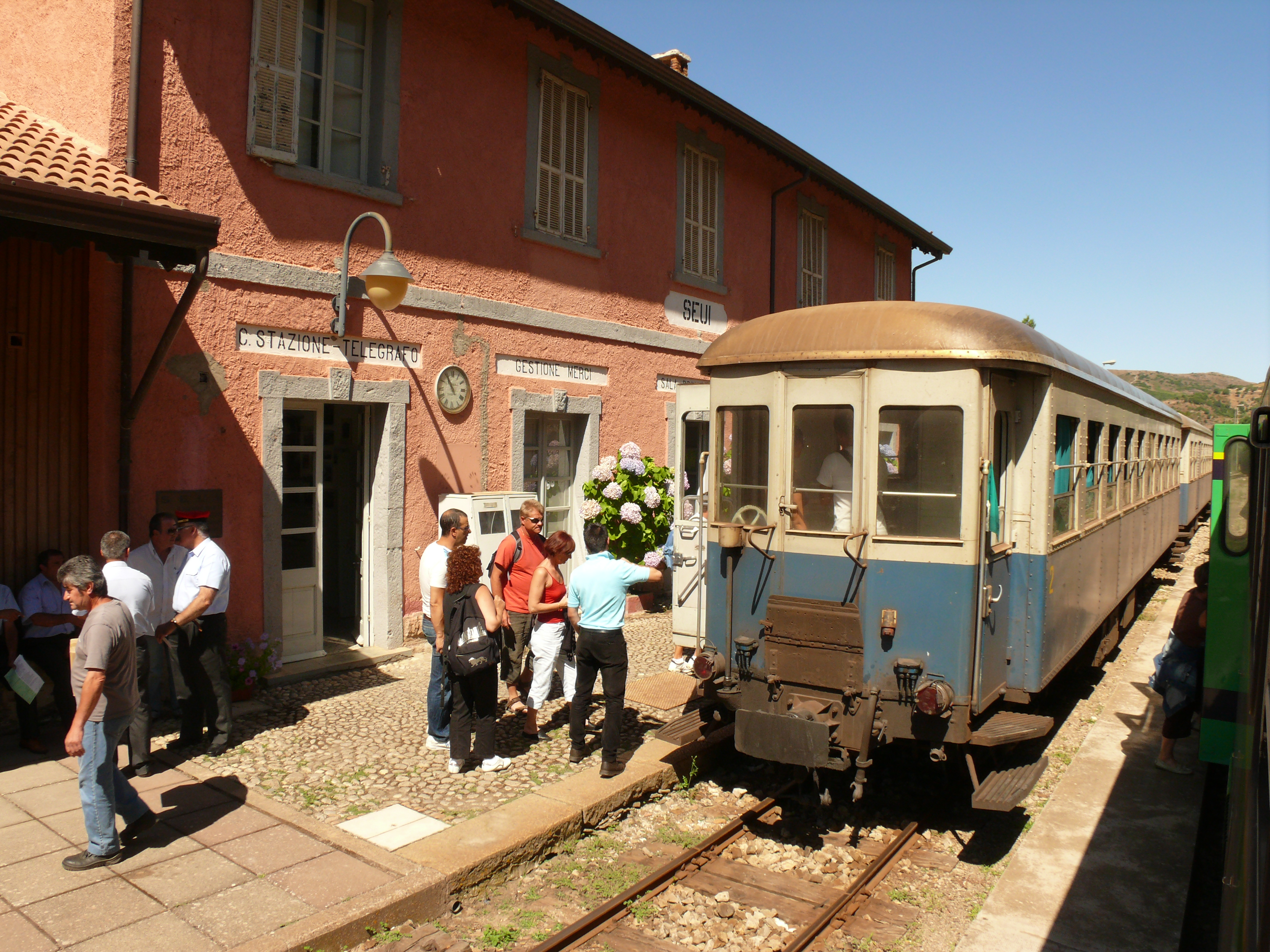 Seui railway station -Ogliastra - sardinia